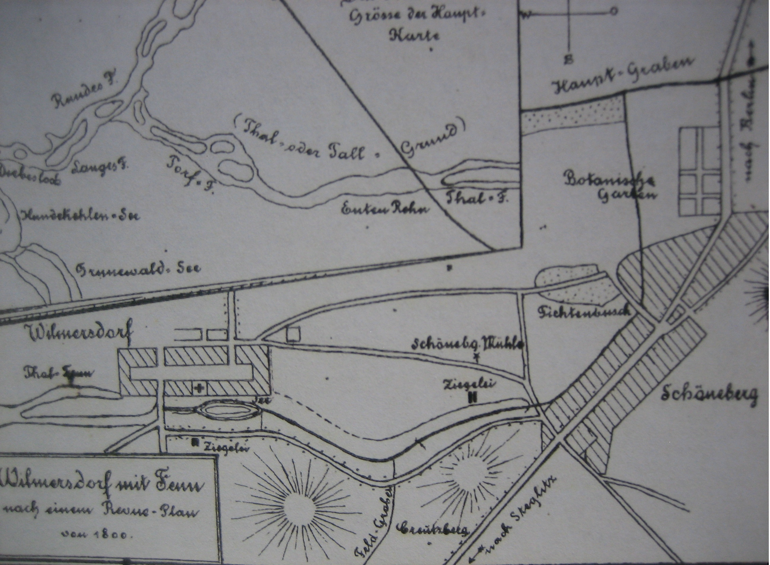 Old district of Wilmersdorf with moore areas, Grunewald sees.particular